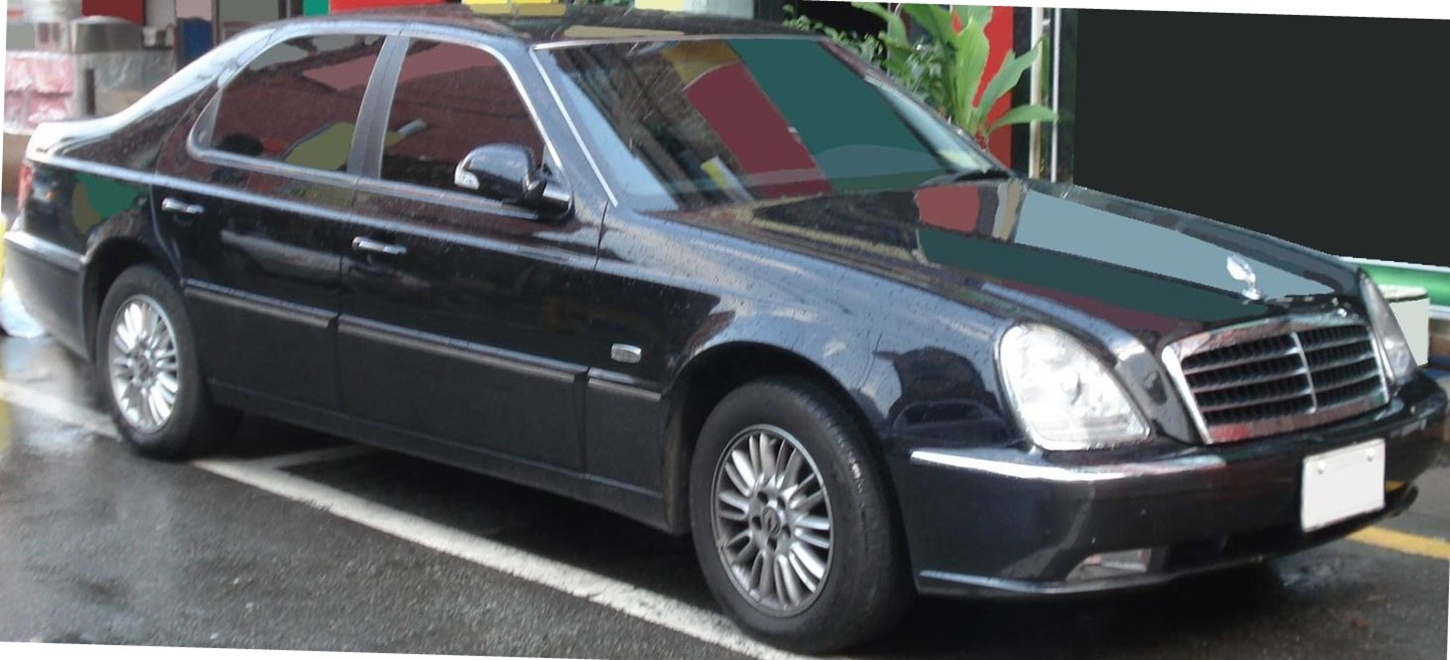 SsangYong Chairman H